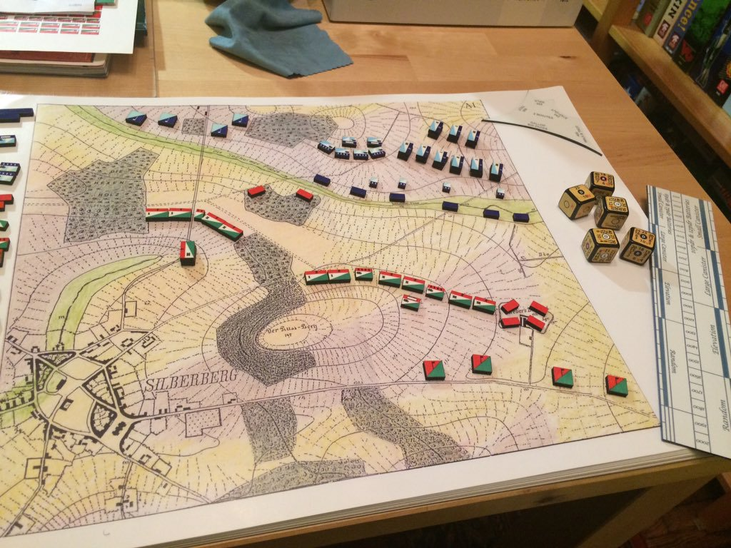 A reconstruction of a Prussian military wargame (kriegsspiel), based on a ruleset developed by Georg Heinrich Rudolf Johann von Reiswitz in 1824.